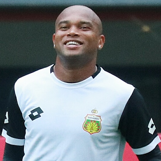 Sales